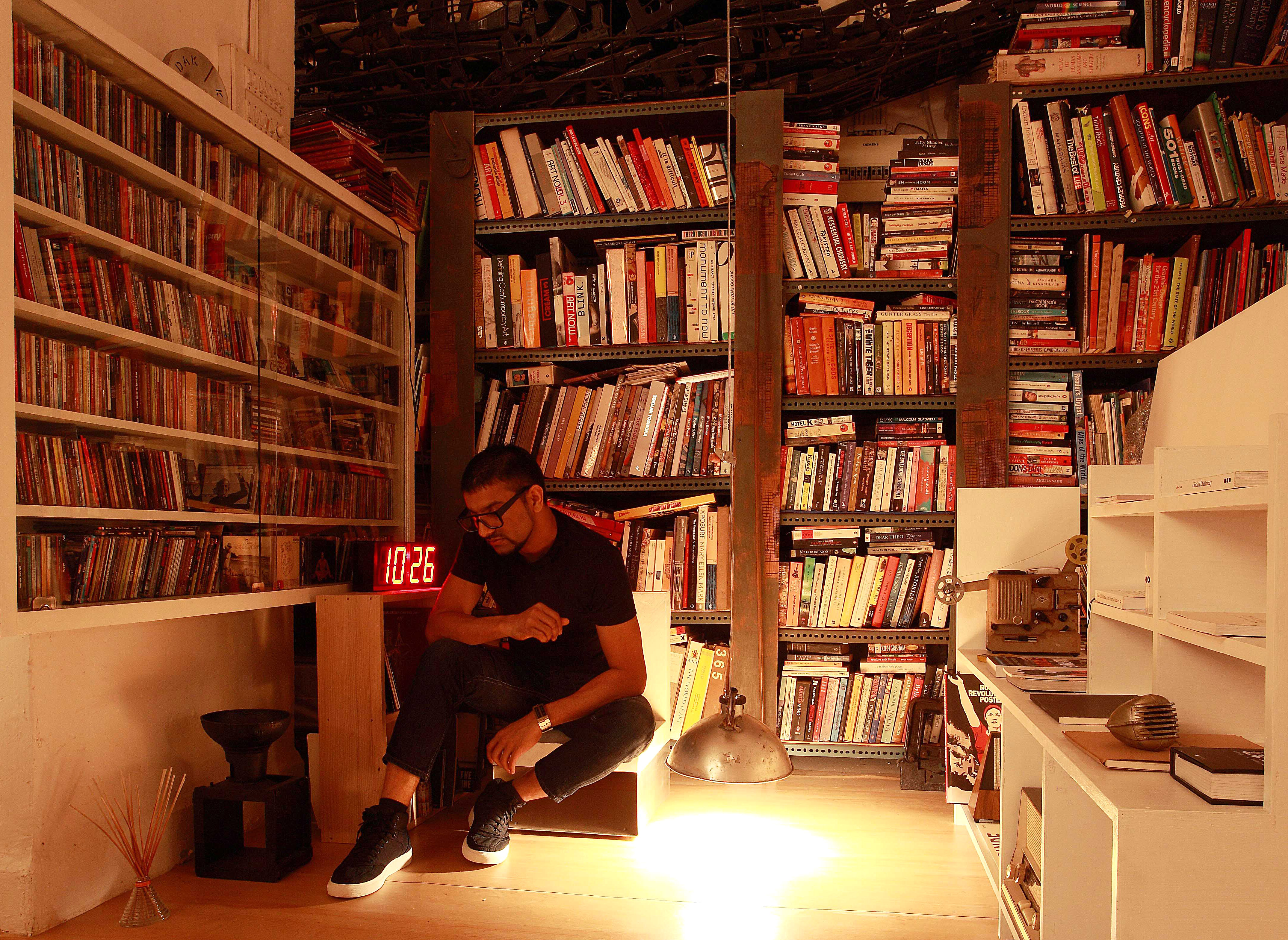 This is a photograph of artist Sunil Padwal in his studio.